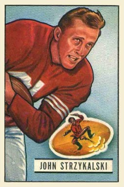 American football player Johnny Strzykalski on a 1951 Bowman card.